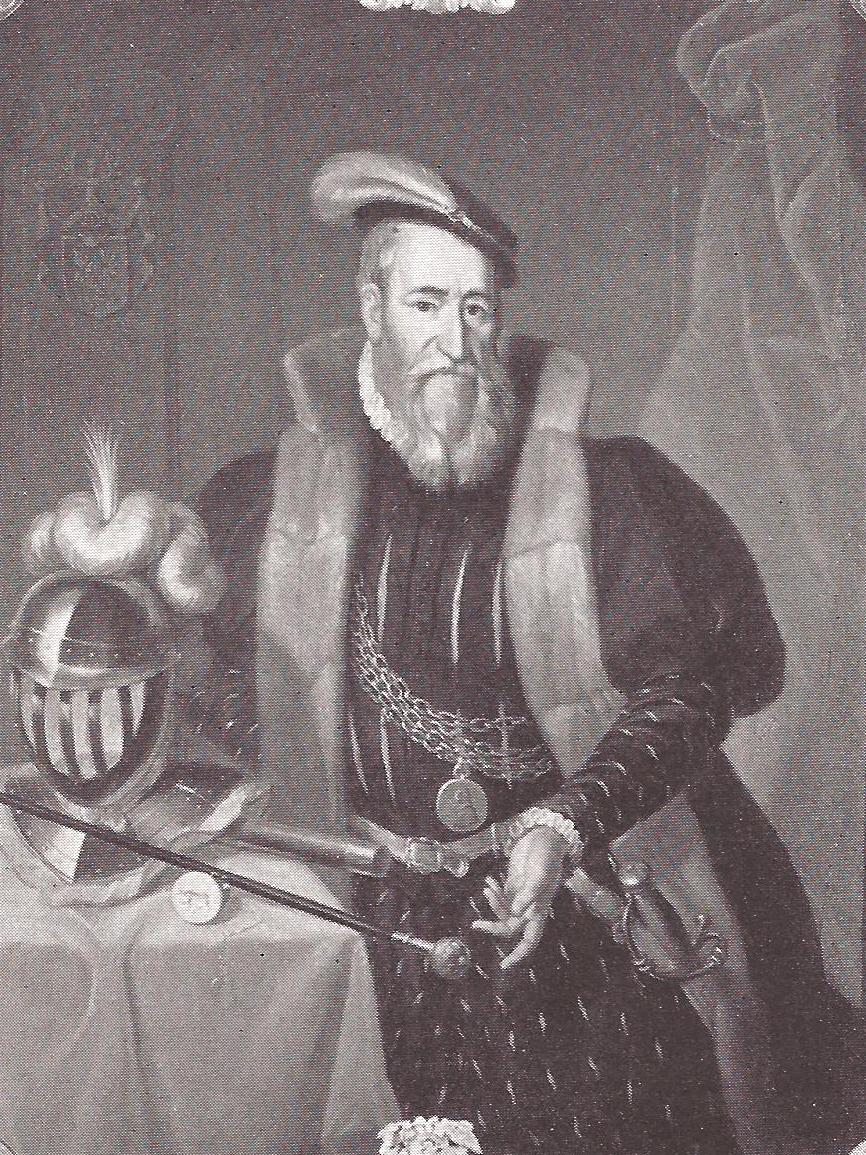 Johann von Wattenwyl